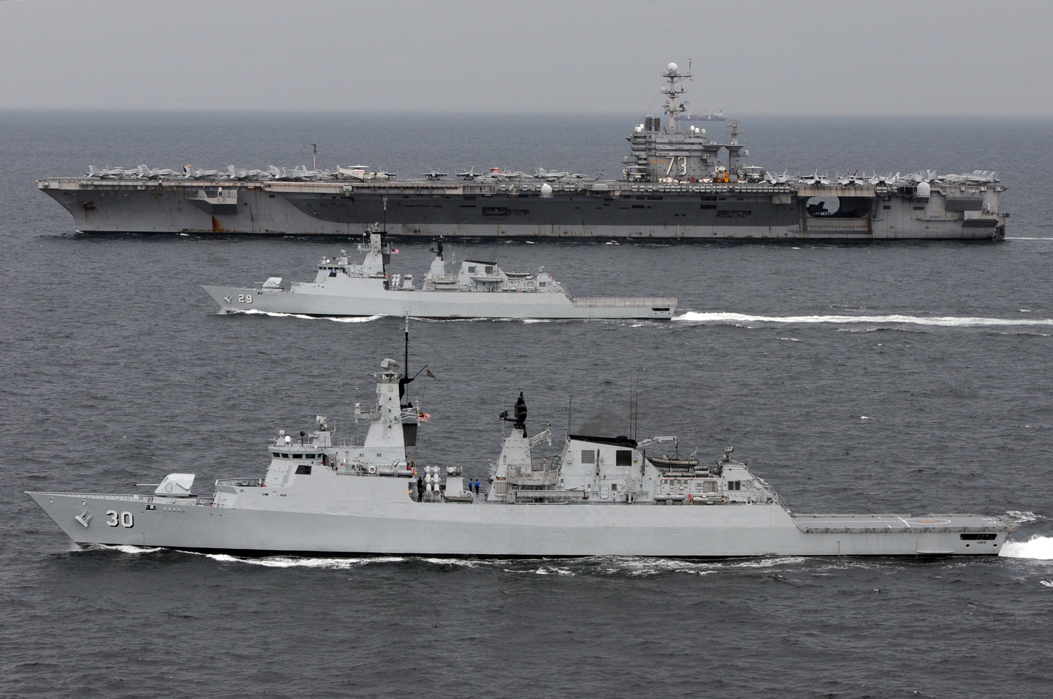 ANDAMAN SEA (Oct. 13, 2012) The Nimitz-class aircraft carrier USS George Washington (CVN 73) is underway with the Royal Malaysian Navy frigates RMN Jebat (FF 29) and RMN Lekiu (FF 30) during a transit of the Andaman Sea. George Washington and its embarked air wing, Carrier Air Wing (CVW) 5, provide a combat-ready force that protects and defends the collective maritime interest of the U.S. and its allies and partners in the Asia-Pacific region. The U.S. Navy is constantly deployed to preserve peace, protect commerce, and deter aggression through forward presence. Join the conversation on social media using #warfighting. (U.S. Navy photo by Chief Mass Communication Specialist Jennifer A. Villalovos/Released)